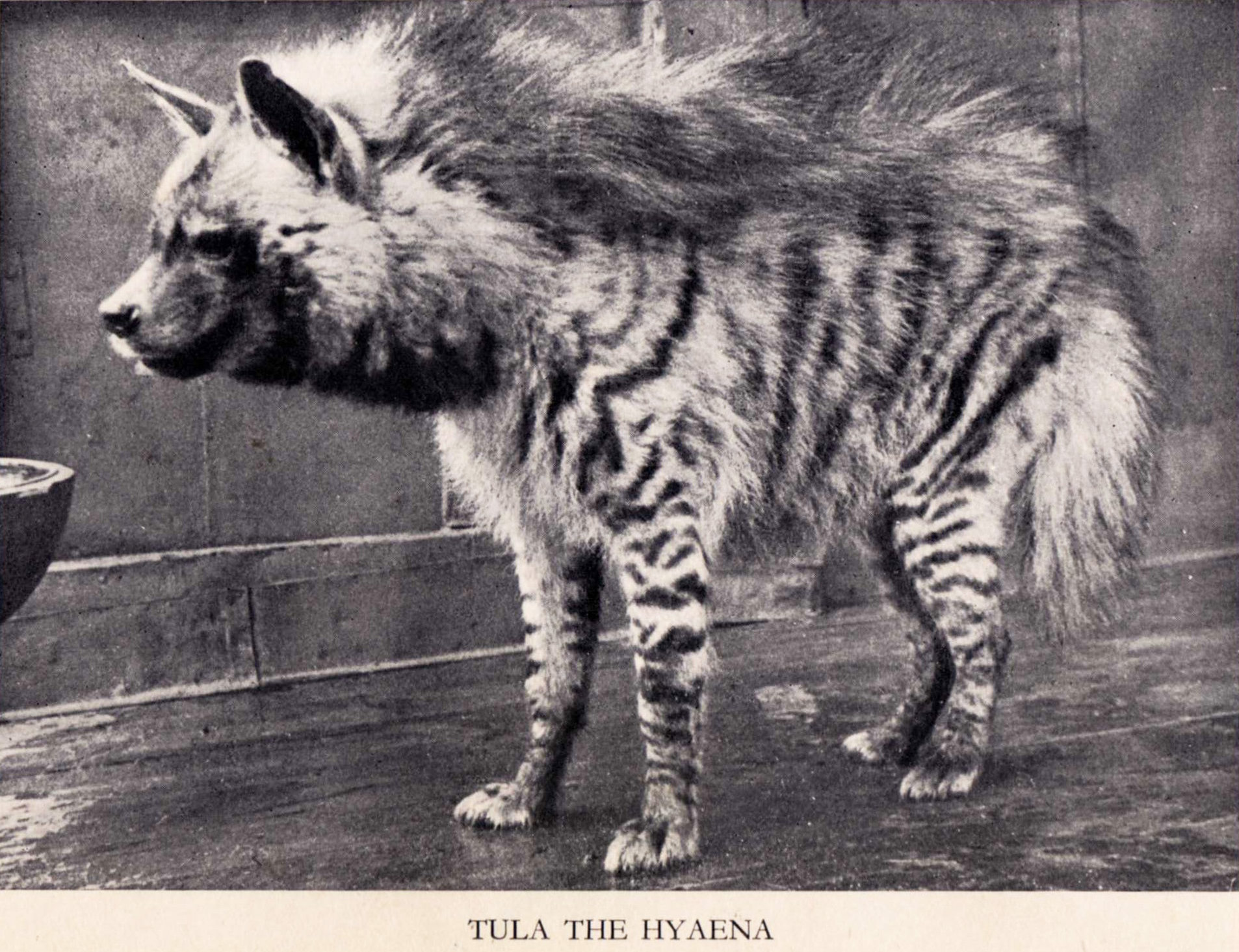 The hyaena Tyulka (the hero of the same story by Vera Chaplina). Moscow Zoo, 1930s